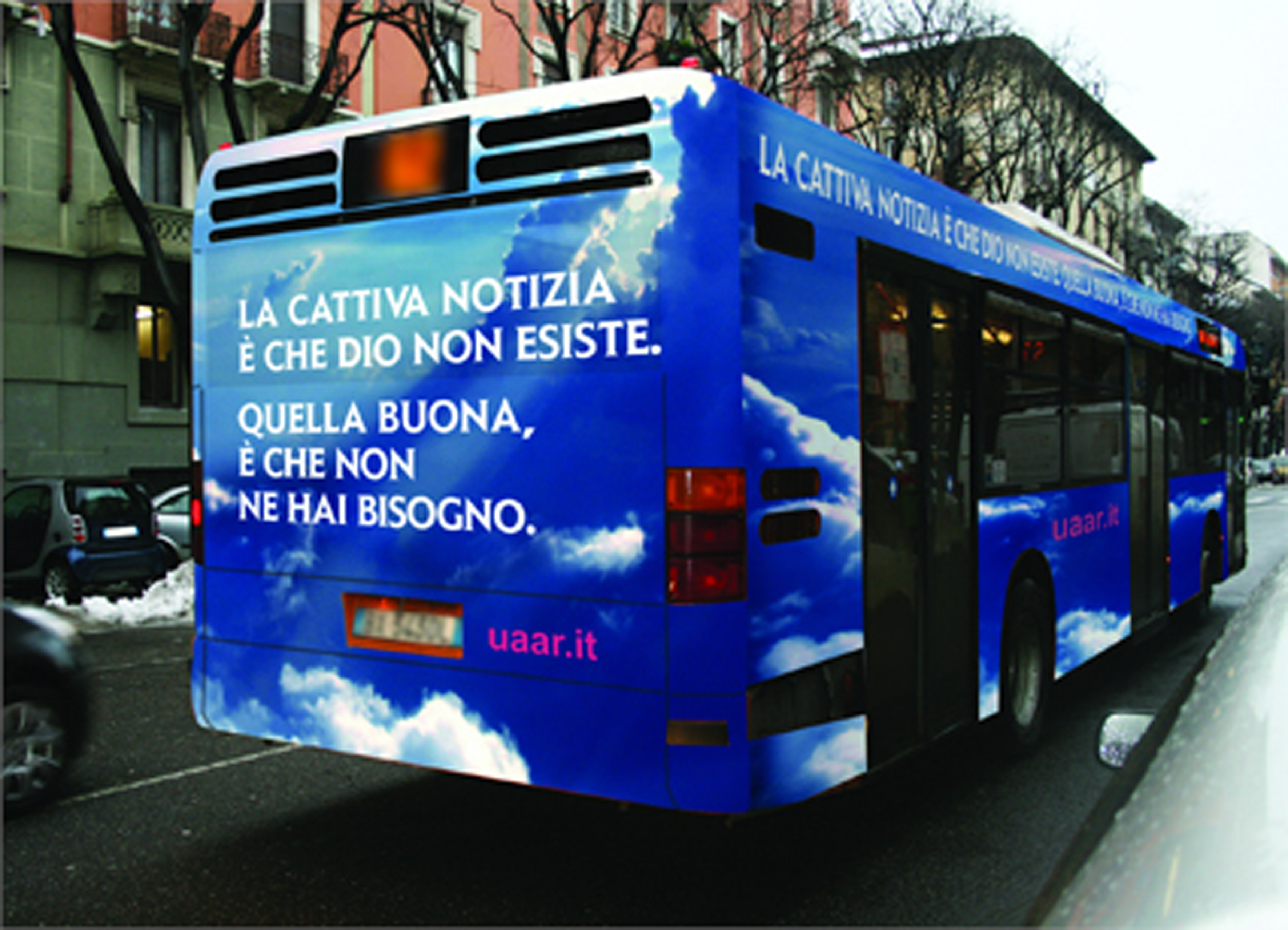 Photomontage of the pilot Italian atheist bus ad promoted by UAAR, to be launched in Genoa on February 4, 2009. Text: "The bad news is God doesn't exist. The good news is you don't need him."